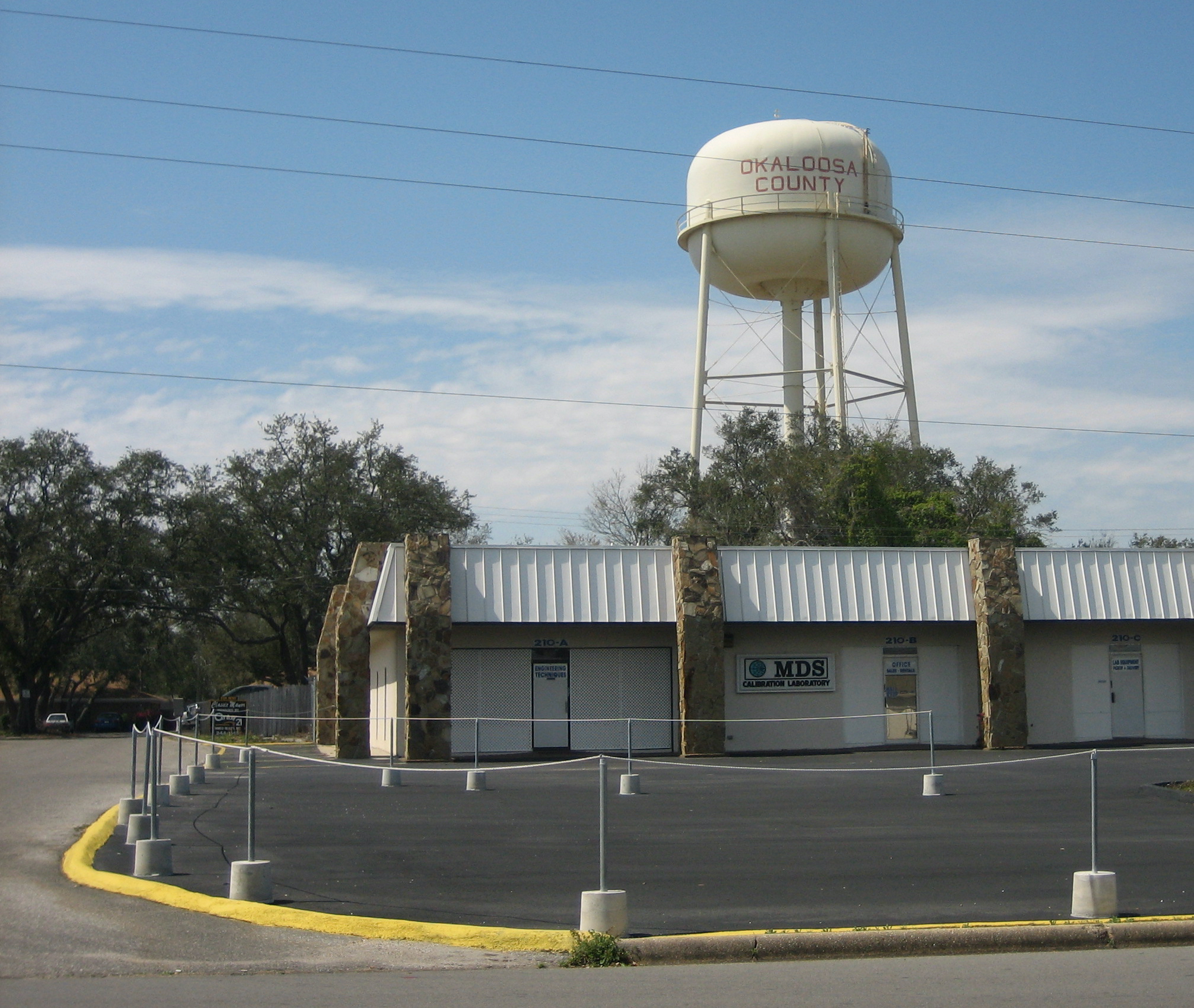 Water tower, Fort Walton Beach, Okaloosa County, Florida.